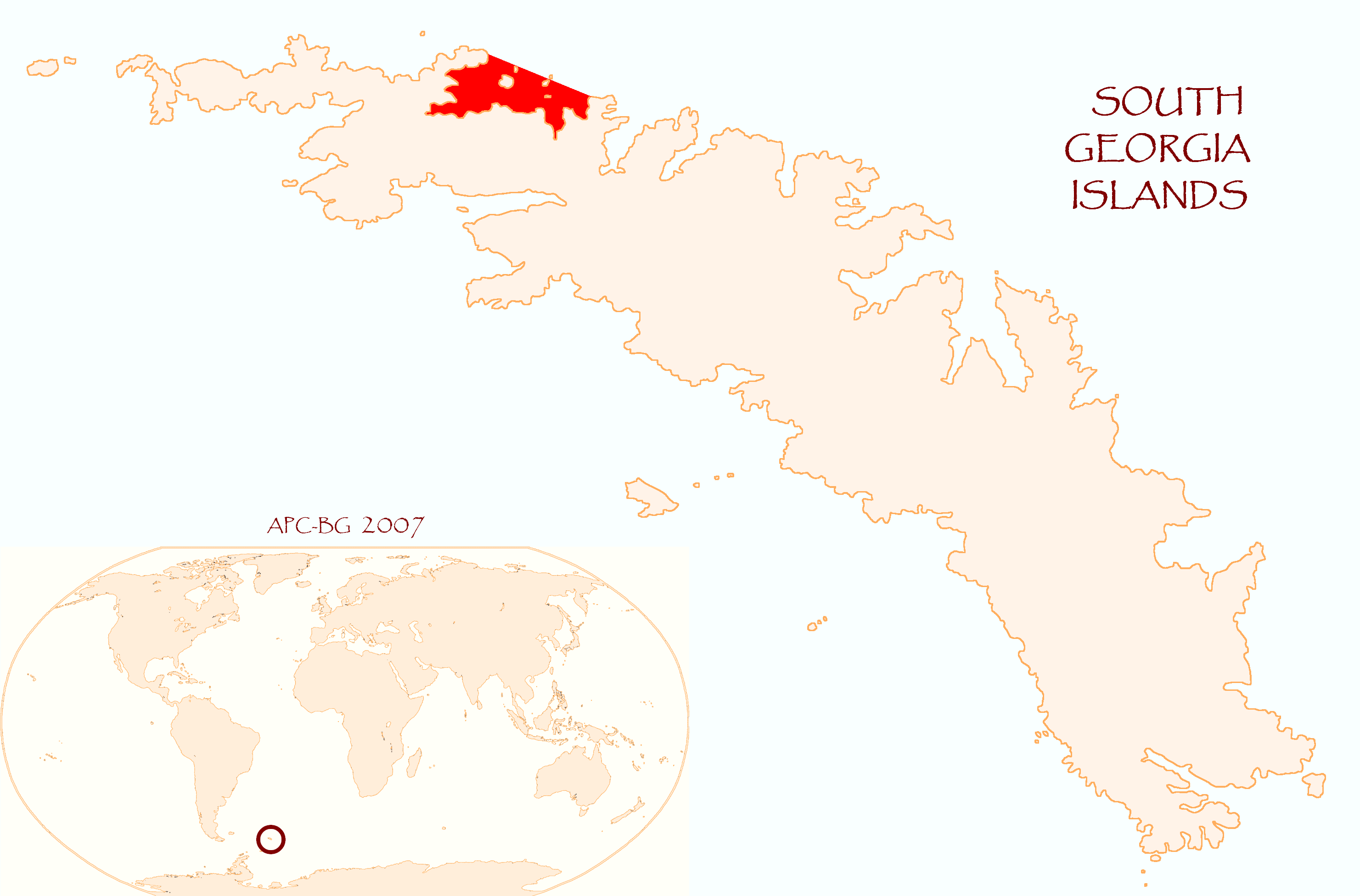 Location map for Bay of Isles, South Georgia published by the author Apcbg.